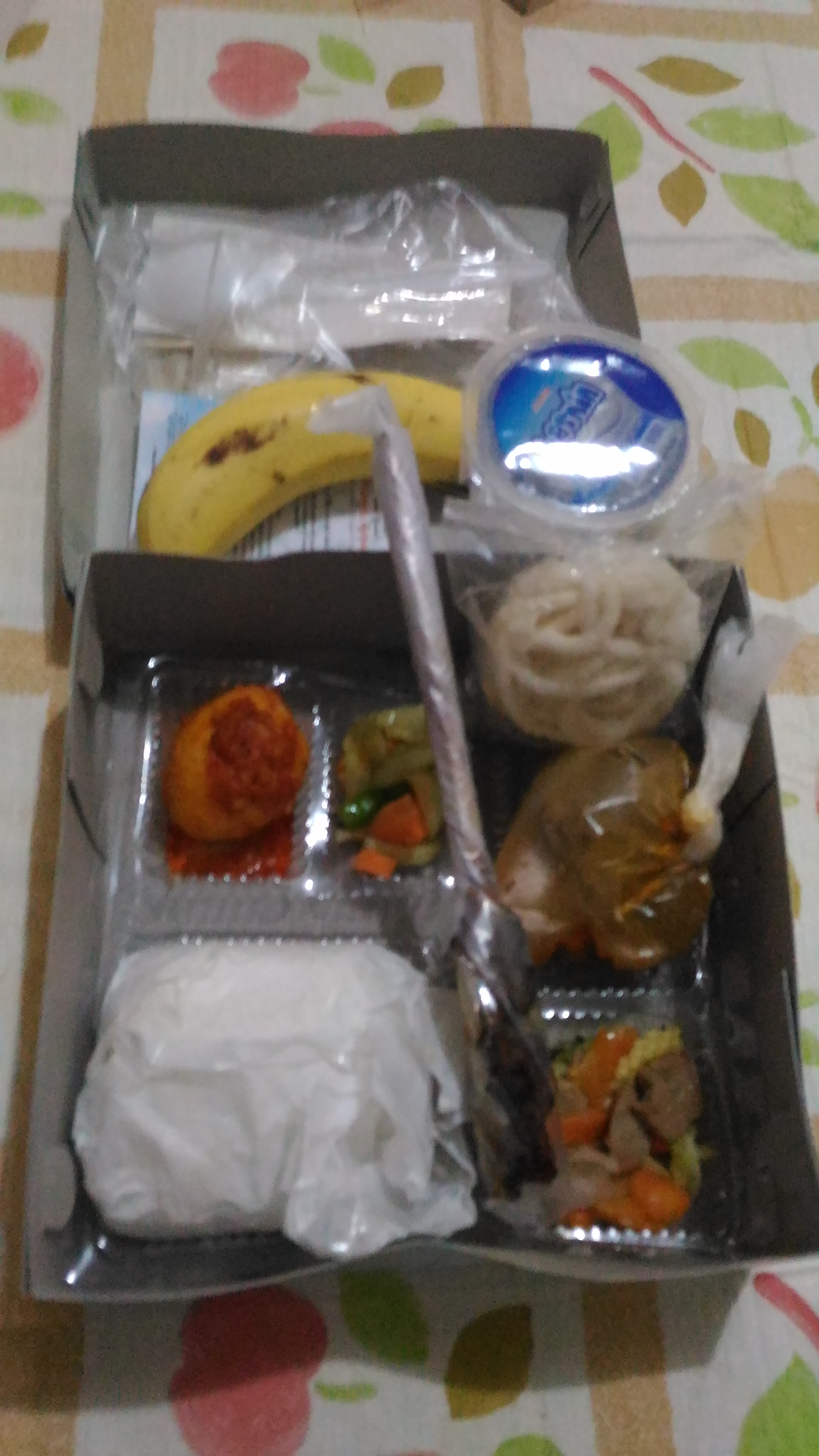 A typical rice box given to guests attending the Aqiqah (new born baby) ceremony, in Jakarta, Indonesia. In the picture, it consists of banana, packaged water, spiced boiled egg, pickled cucumber and carrot, fish crackers, goat curry, goat satay, stir-fry vegetables, and rice.